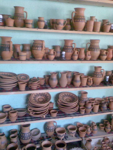 Traditional pottery from Sacel, Romania.